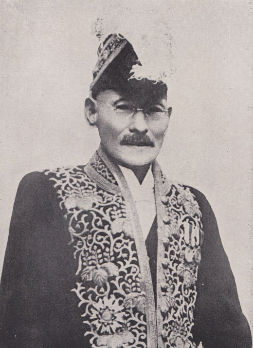 Doctor of Veterinary Science Giemon Sudo.